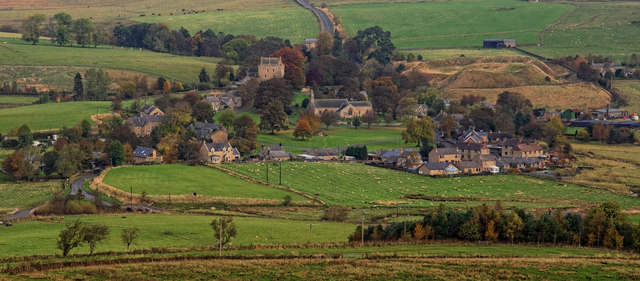 Elsdon Village View of Elsdon Village seen from Gallow Hill.